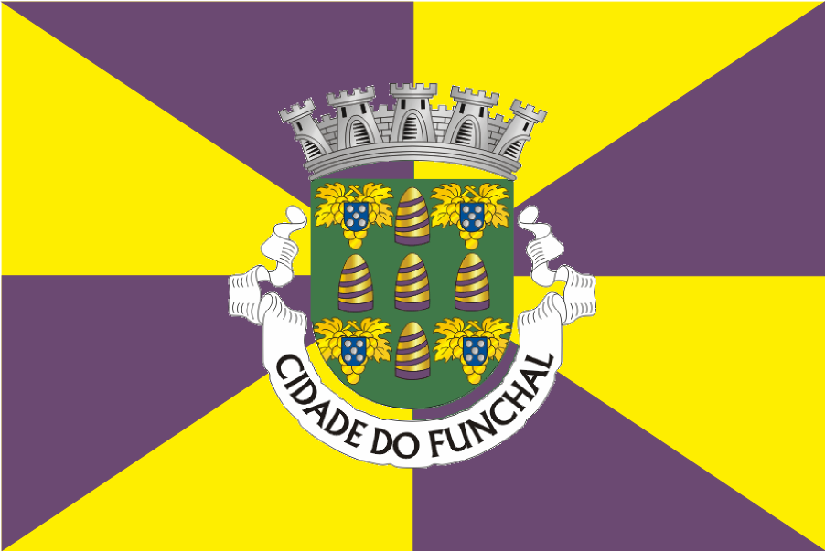 Flag of Funchal municipality (Madeira RA, Portugal)